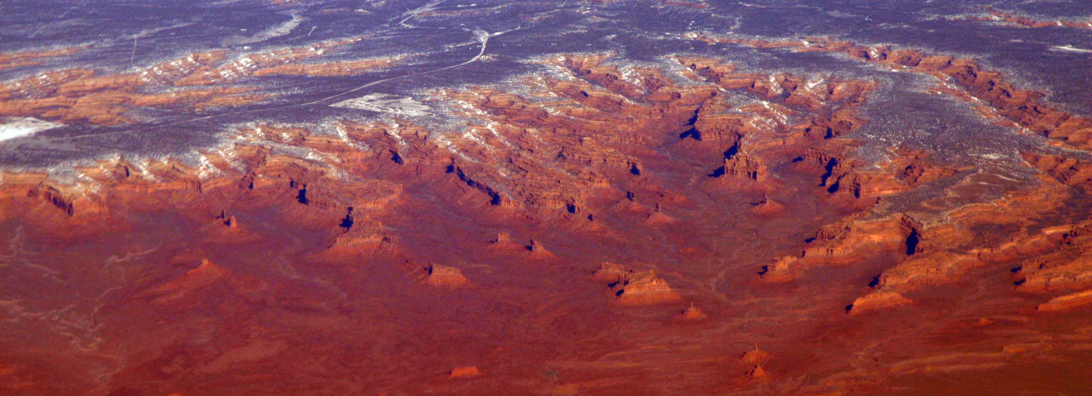 Valley of the Gods, Utah, near Mexican Hat Uploaded on February 22, 2008 by Doc Searls